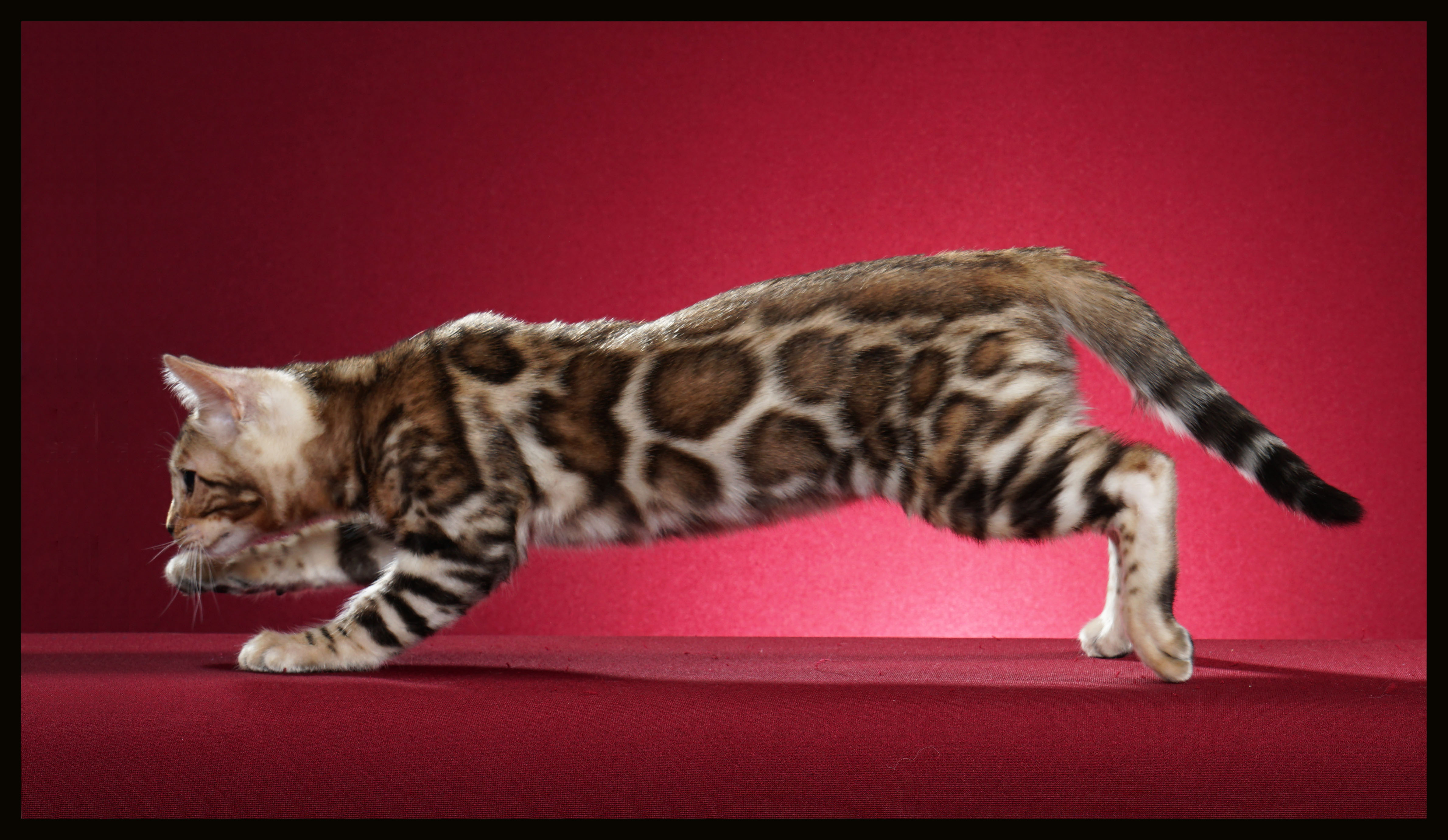 Photo of a stalking Bengal cat